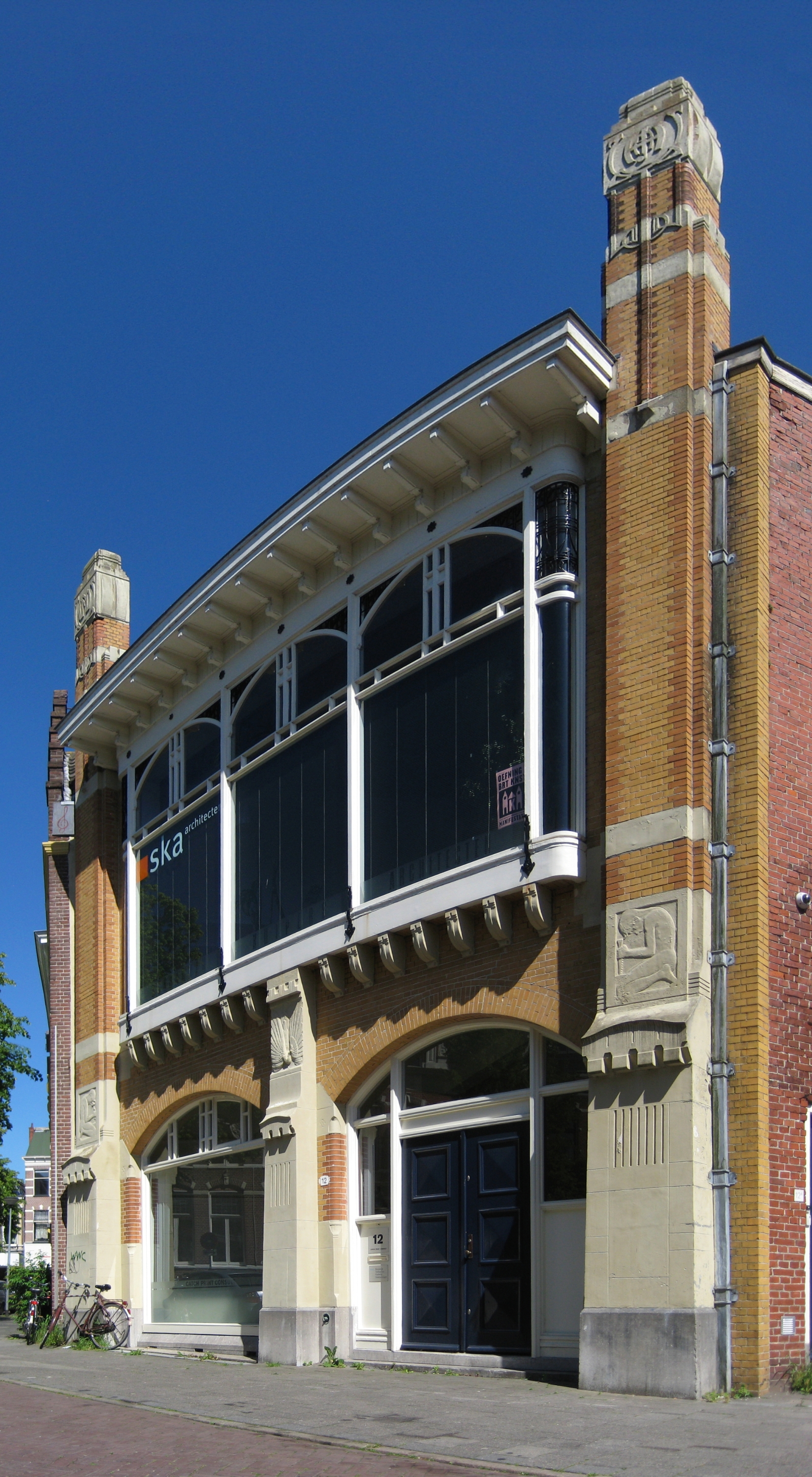 A former furniture factory (1904) in the Dutch city of Groningen.